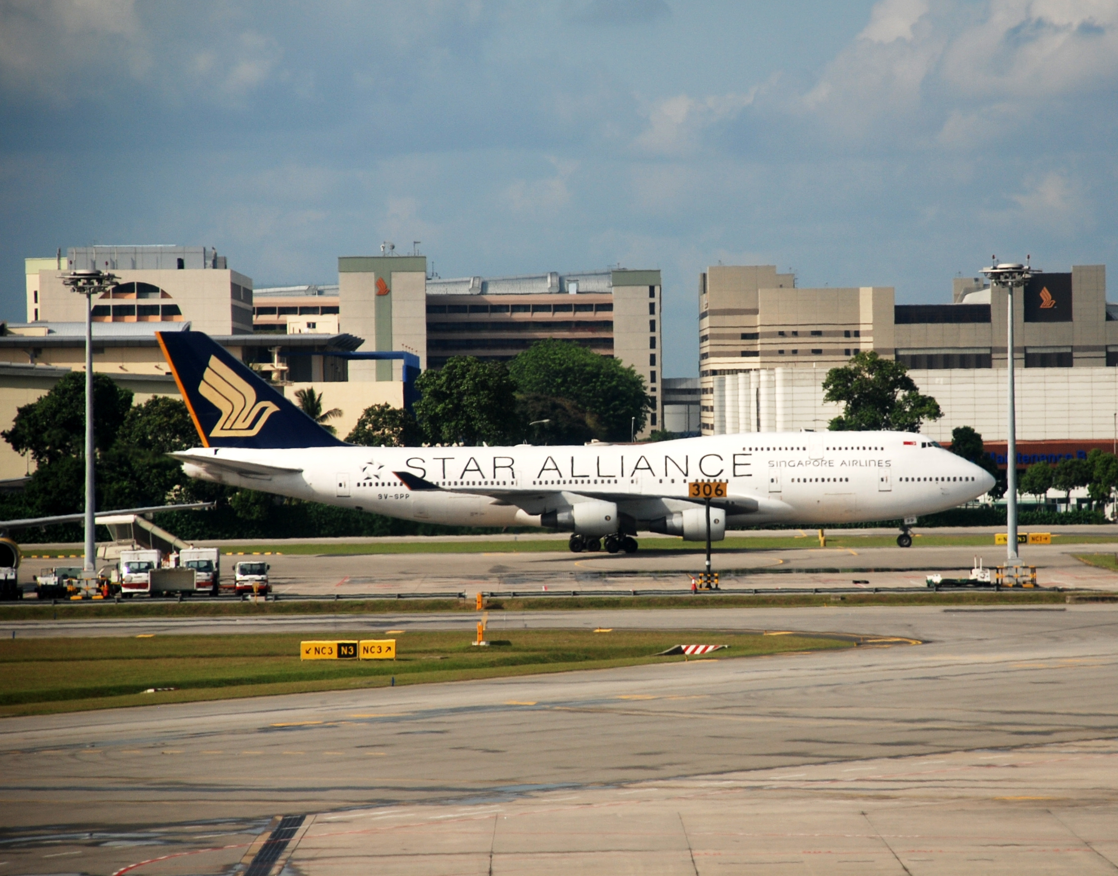 Singapore Airlines Boeing 747-400 (9V-SPP) in Star Alliance livery at Singapore Changi Airport. Airline House, the Singapore Airlines head office complex, is in the background.